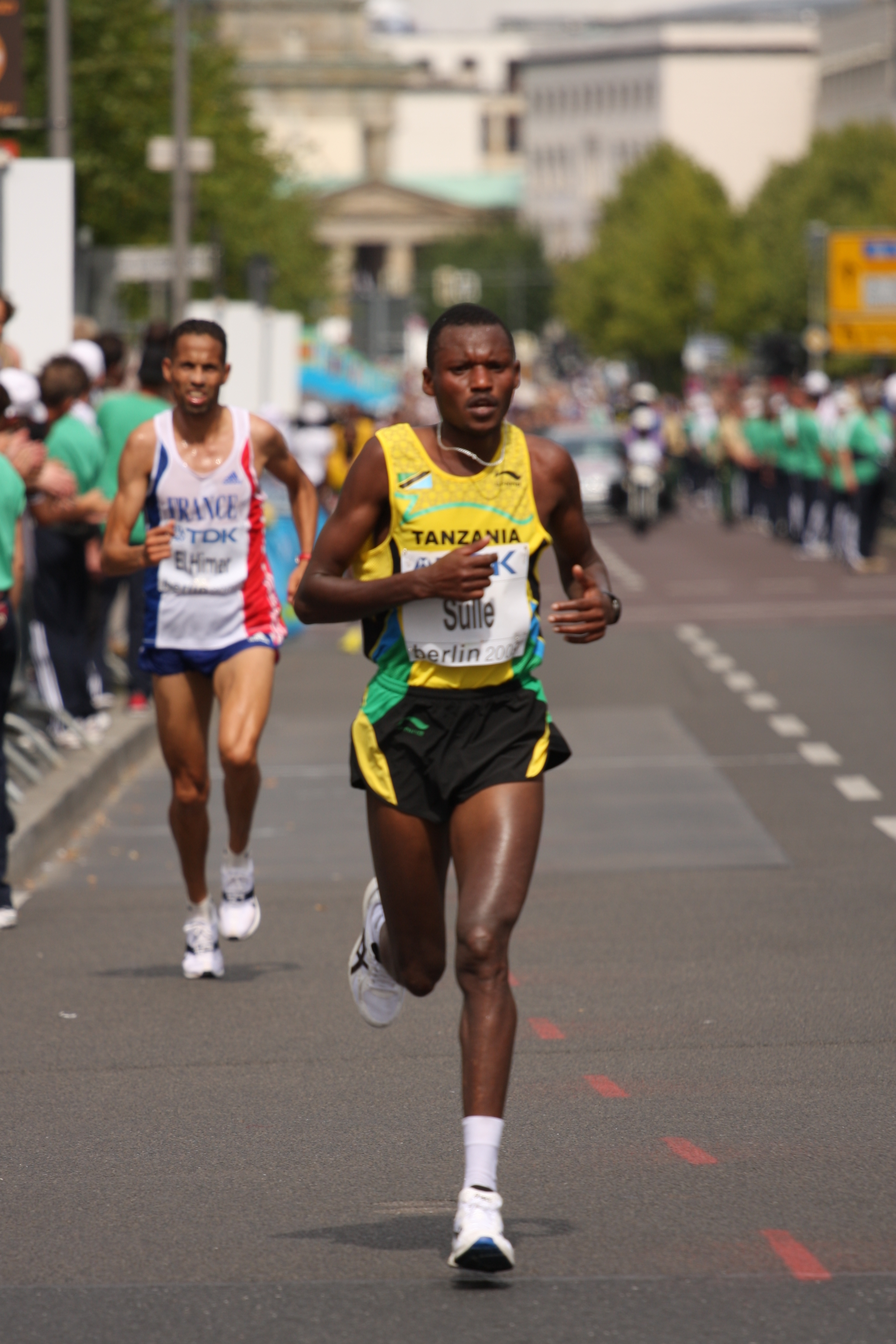 Marathon